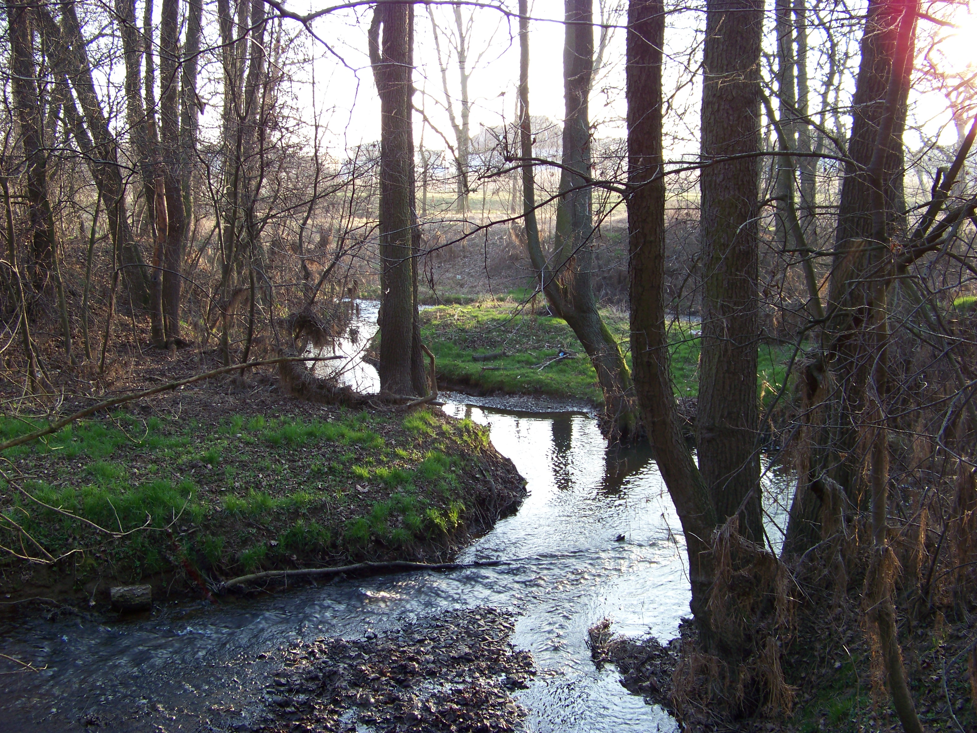 Prague-Křeslice, Czech Republic. Pitkovický potok, before its outfall to the Botič.